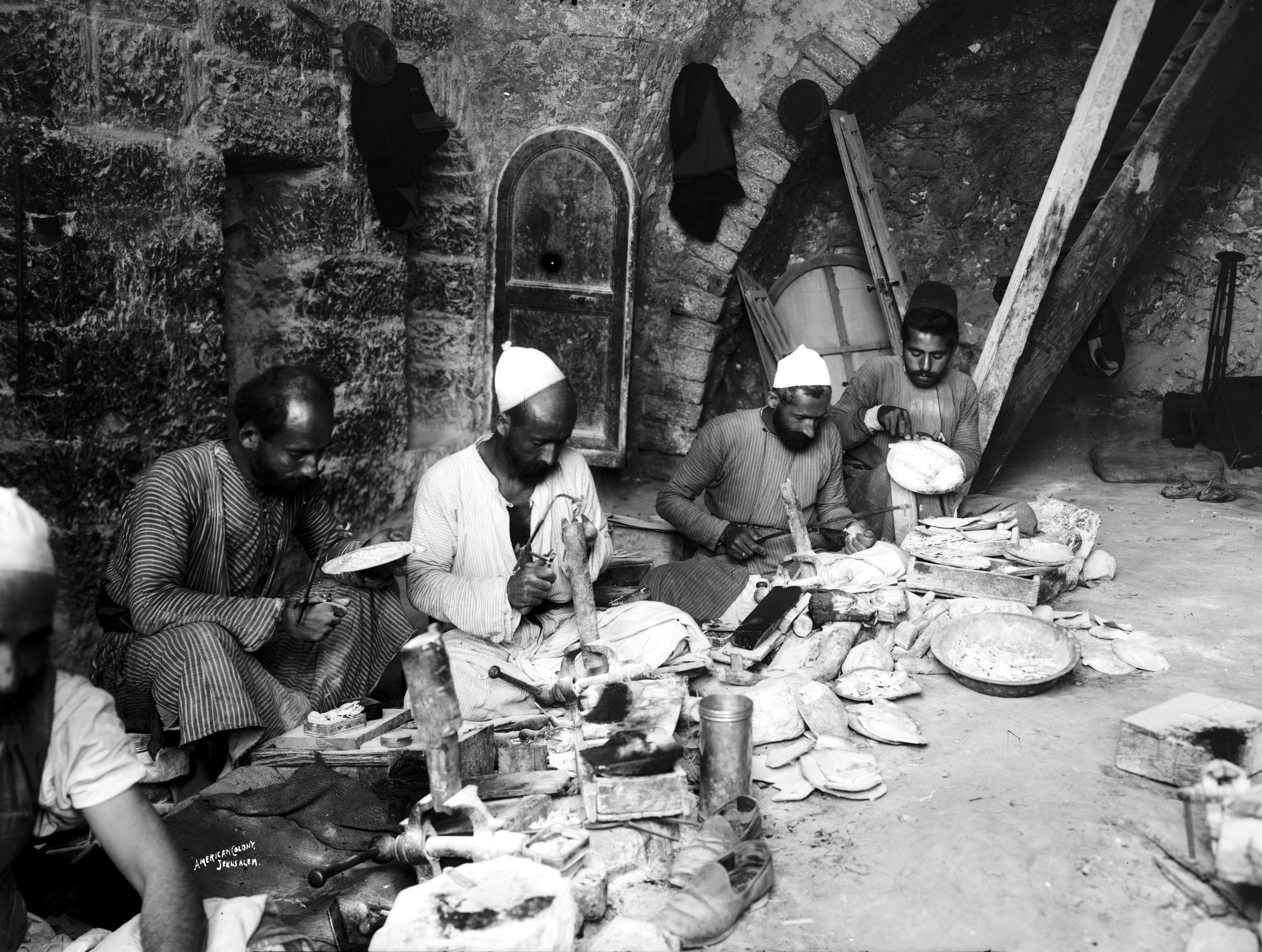 Workers in mother-of-pearl.